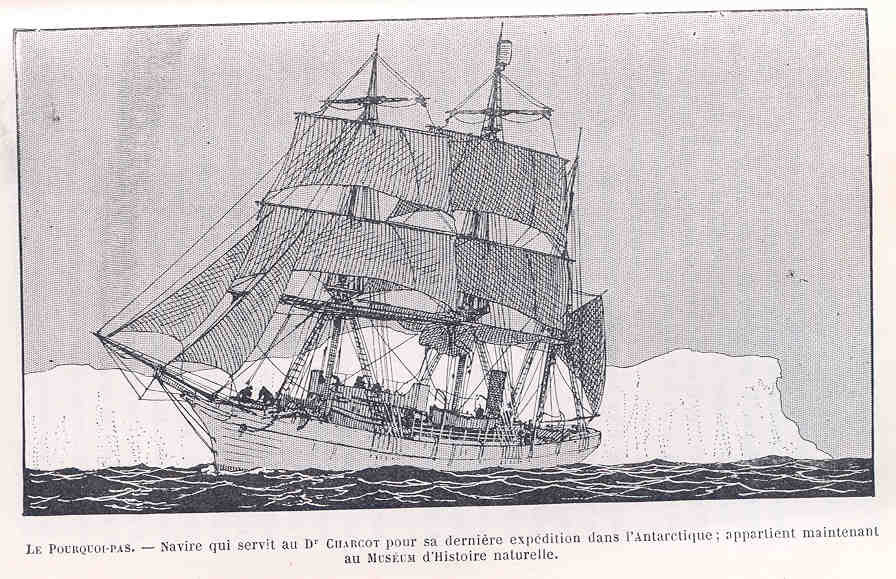 Savire qui servit au dr Charcot pour sa derniere expedition dans l'Antarctique; appartient maintenant au Museum d'Histoire Naturelle Subject: Pourquoi-Pas (Sailing ship), Antarctica--Discovery and exploration Tag: Vessels